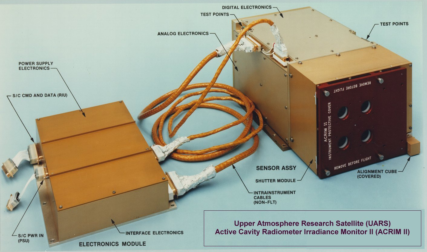 ACRIM II instrument aboard the Upper Atmosphere Research Satellite